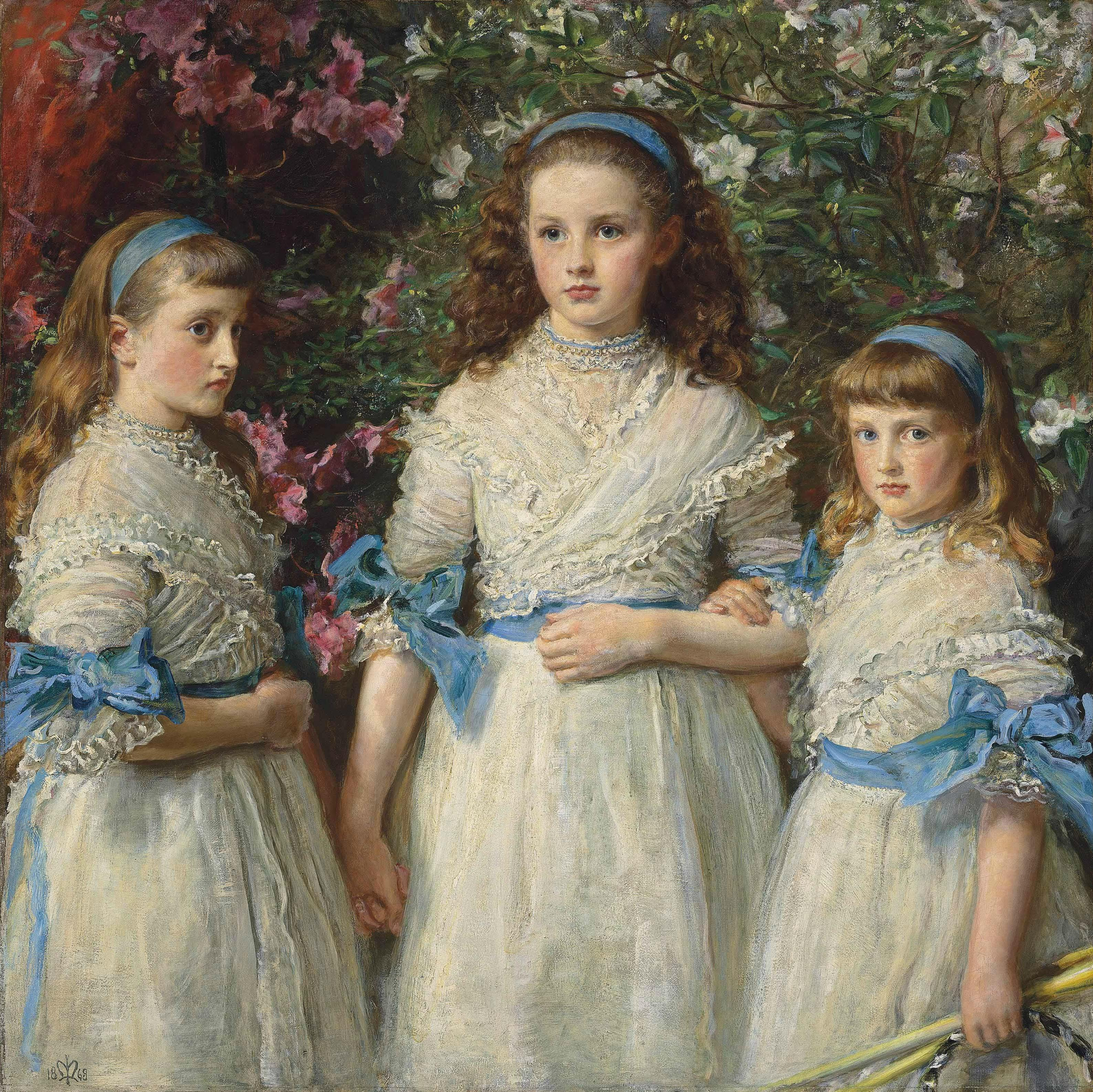 Sister, oil painting on canvas by John Everett Millais, 1868, Private collection